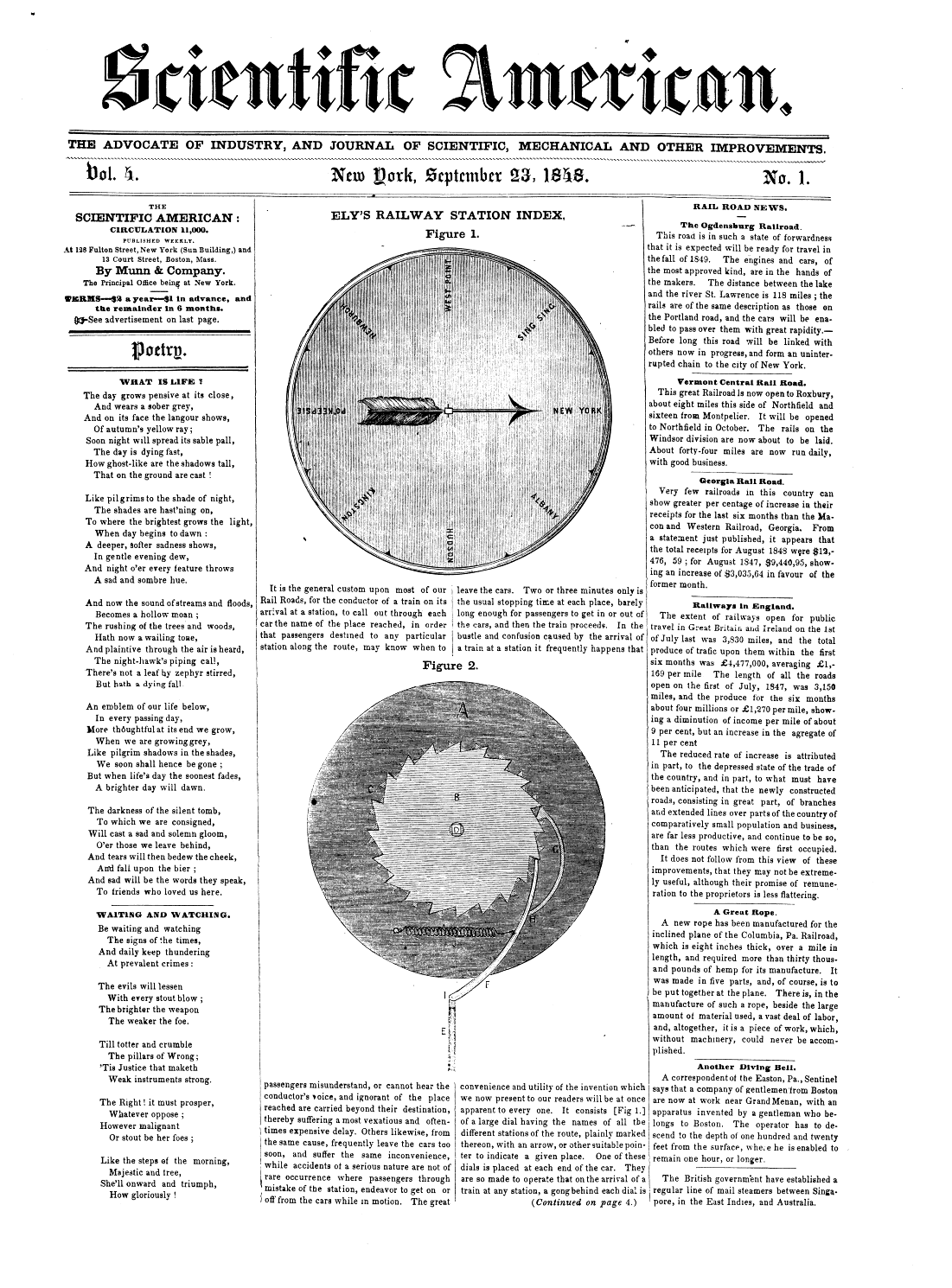 Cover of Scientific American, the September en:1848 issue. The image is available from Cornell University Library